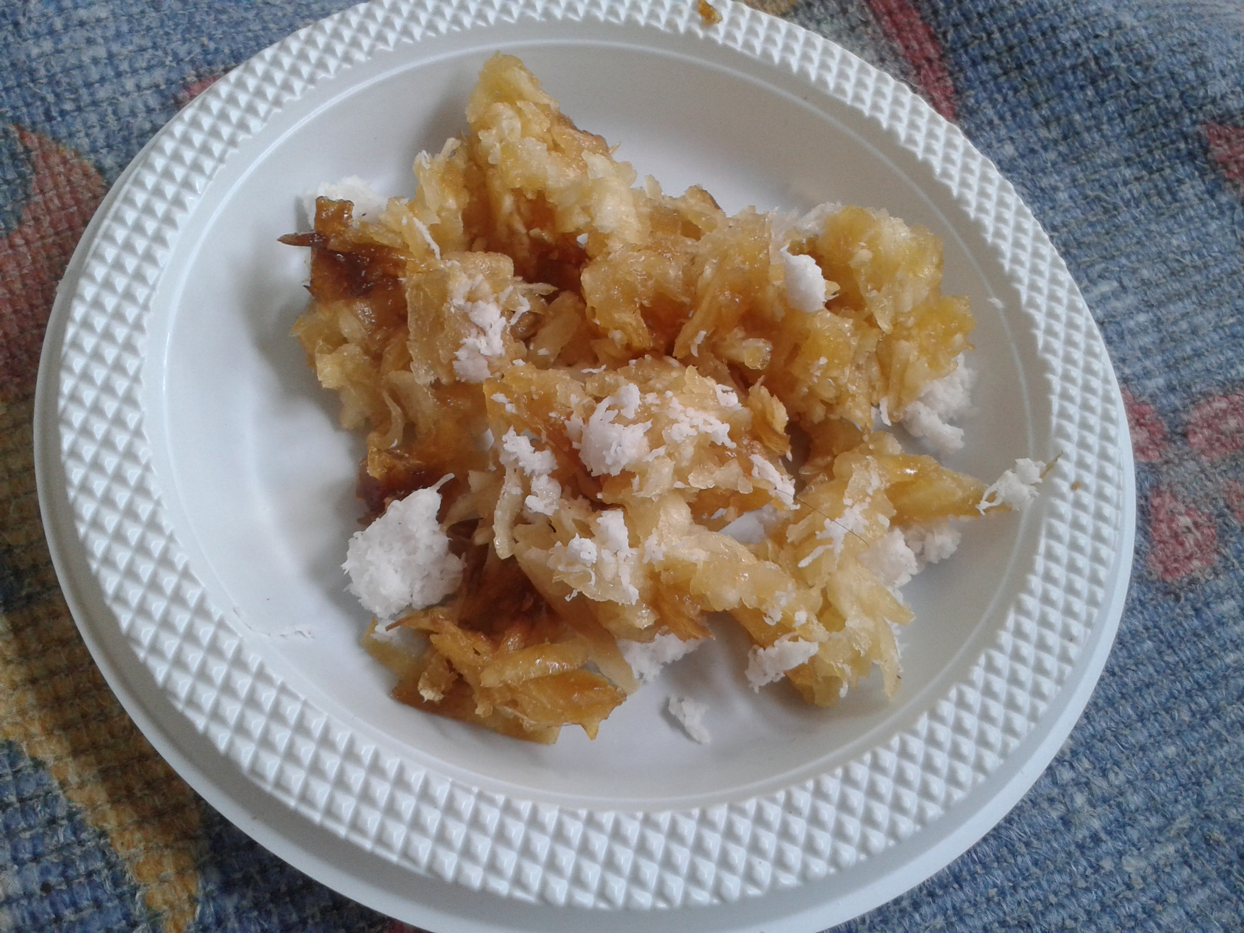 Sawut on a white plate